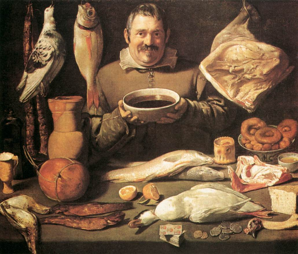 Kitchen scene of Bodegón. The laughing kitchen chef holding a large bowl of red wine in his hands stands behind a table on which all sorts of food is laid out: poultry, quails, a duck, a turkey, fish, a mackerel, cheese, pastries, bread rolls, sausages, hams, a pigeon, a sea bream and a pig's trotter. In the front a pack of cards and some loose change is shown.